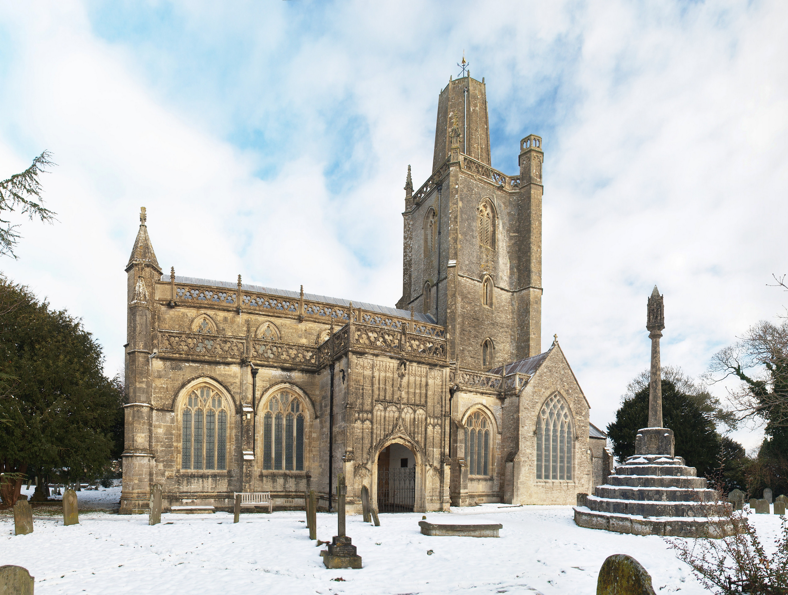 Wide view from the southwest of the parish church of St Mary the Virgin, Yatton, Somerset and (right) its churchyard cross, in snow